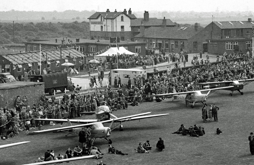 Barton Aerodrome in June 1951 with the prewar Airport Hotel and 1930's buildings converted to passenger facilities.